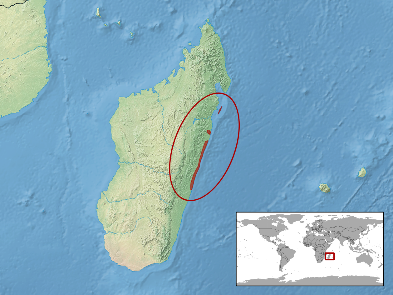 geographic distribution of Phelsuma ravenala (Native: Madagascar)